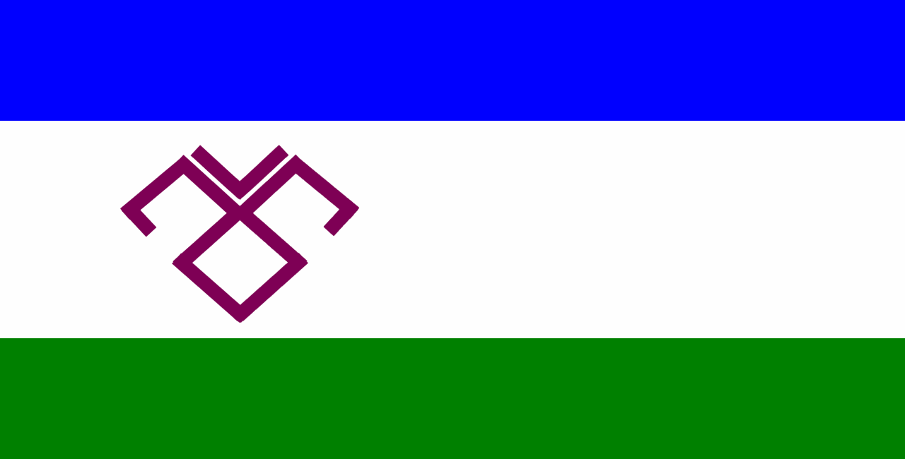 Marij Tiste